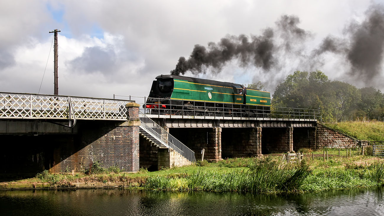 Bulleid 4-6-2 No. 34081 - Nene Valley Railway, Cambridgeshire, 17/09/2017